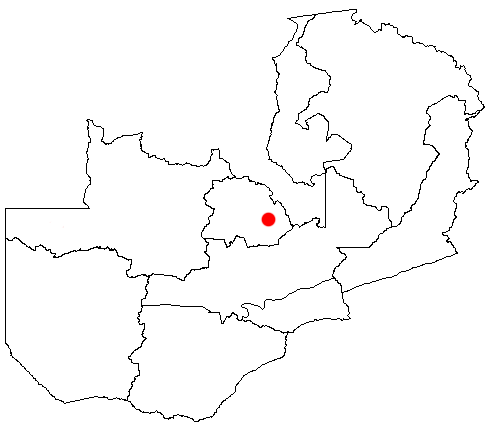 Masaiti, Copperbelt province, Zambia Location Map; created with the GIMP. Made by User:Acntx